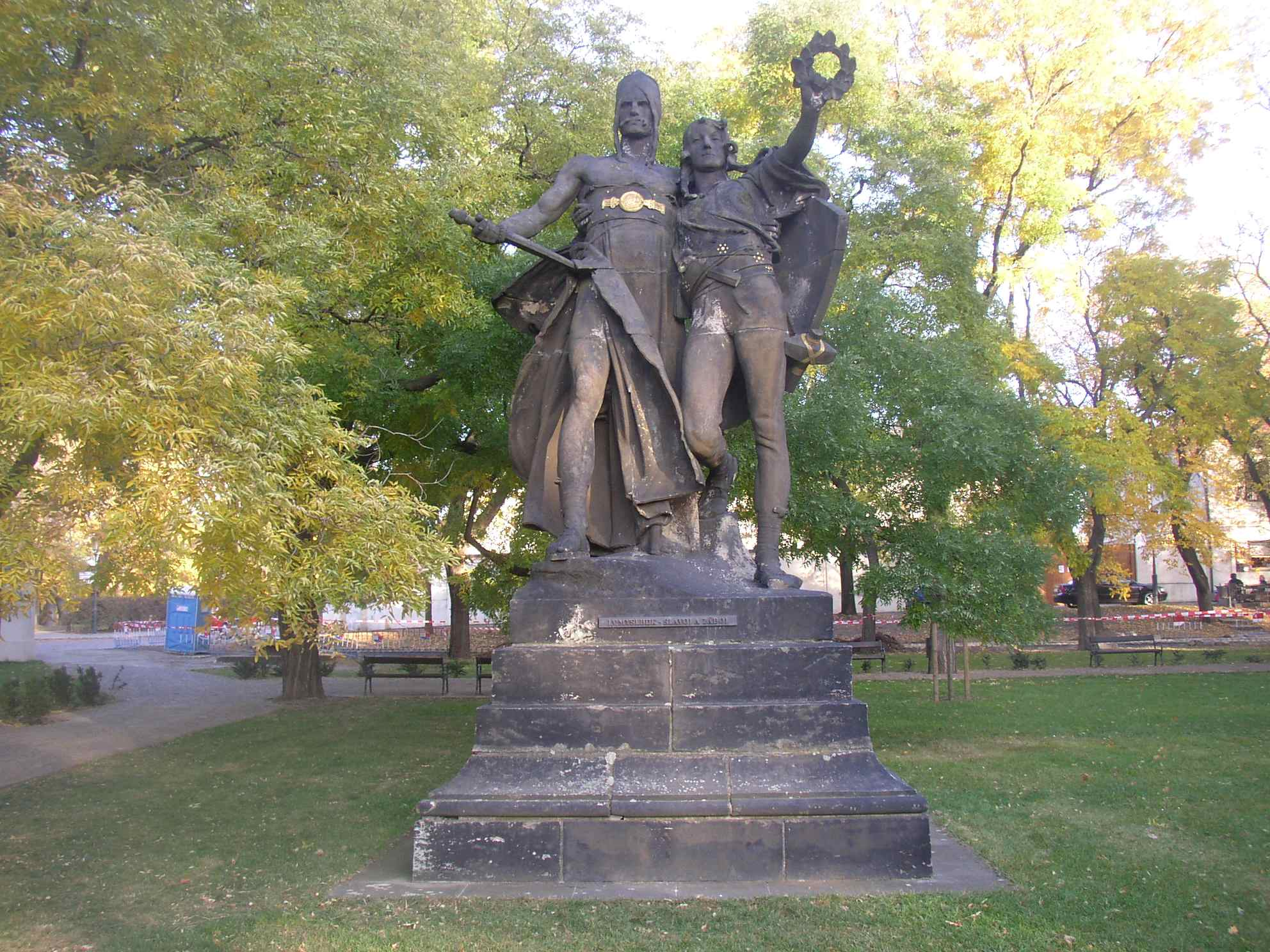 Záboj and Slavoj, Vyšehrad in Prague, Czech Republic. Lokalizace sochy: 50°3'50.639"N, 14°25'5.827"E Sculpture designed by Josef Václav Myslbek in 1881 and finished in 1892 depicts two fictional old-Czech heroes from Manuscript of Dvůr Králové. It was originally placed at the Palacký Bridge, but was transferred to Vyšehrad park in 1947 as the bridge suffered heavy damage during US air raid in February 1945. Photo taken by Miaow Miaow in October 2005, PD-self